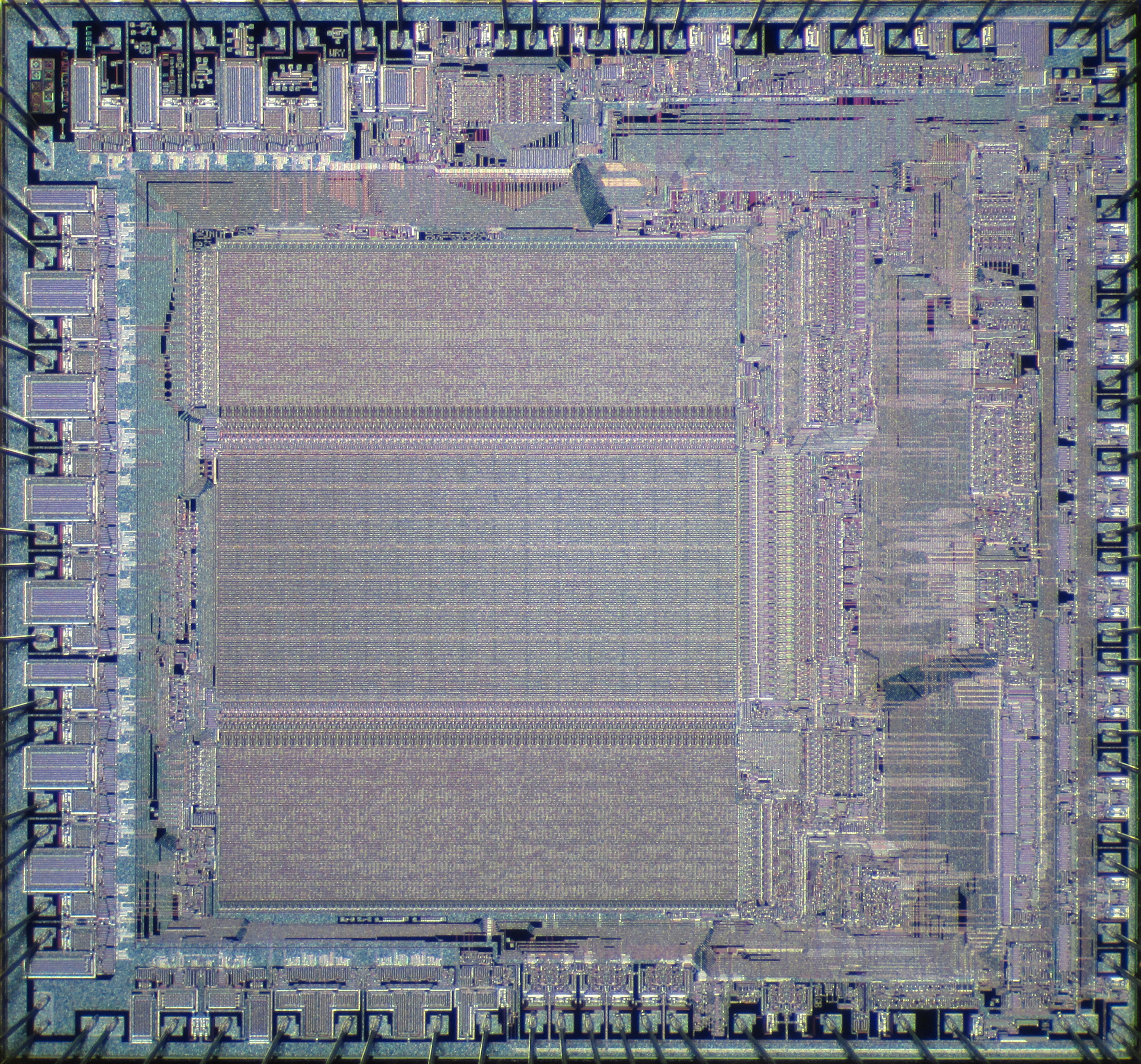 Die shot of DEC J-11 Control chip with chip number DC335 and part number 21-17679-16.